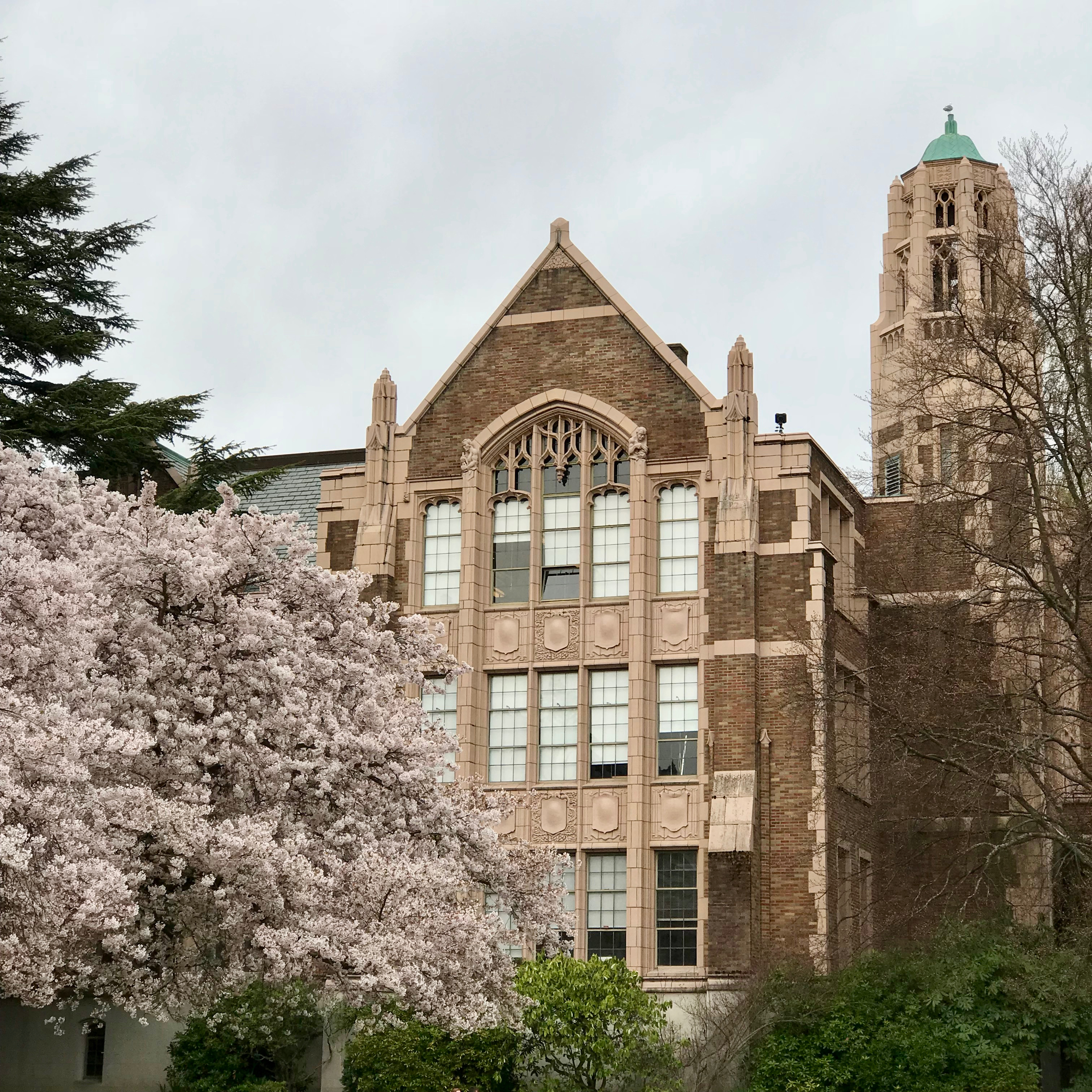 Art Building on the University of Washington campus in Seattle